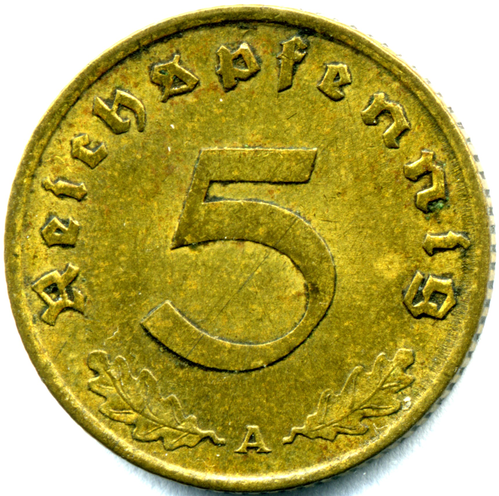 5 Reichspfenning coin 1939a Reverse with value and mint mark